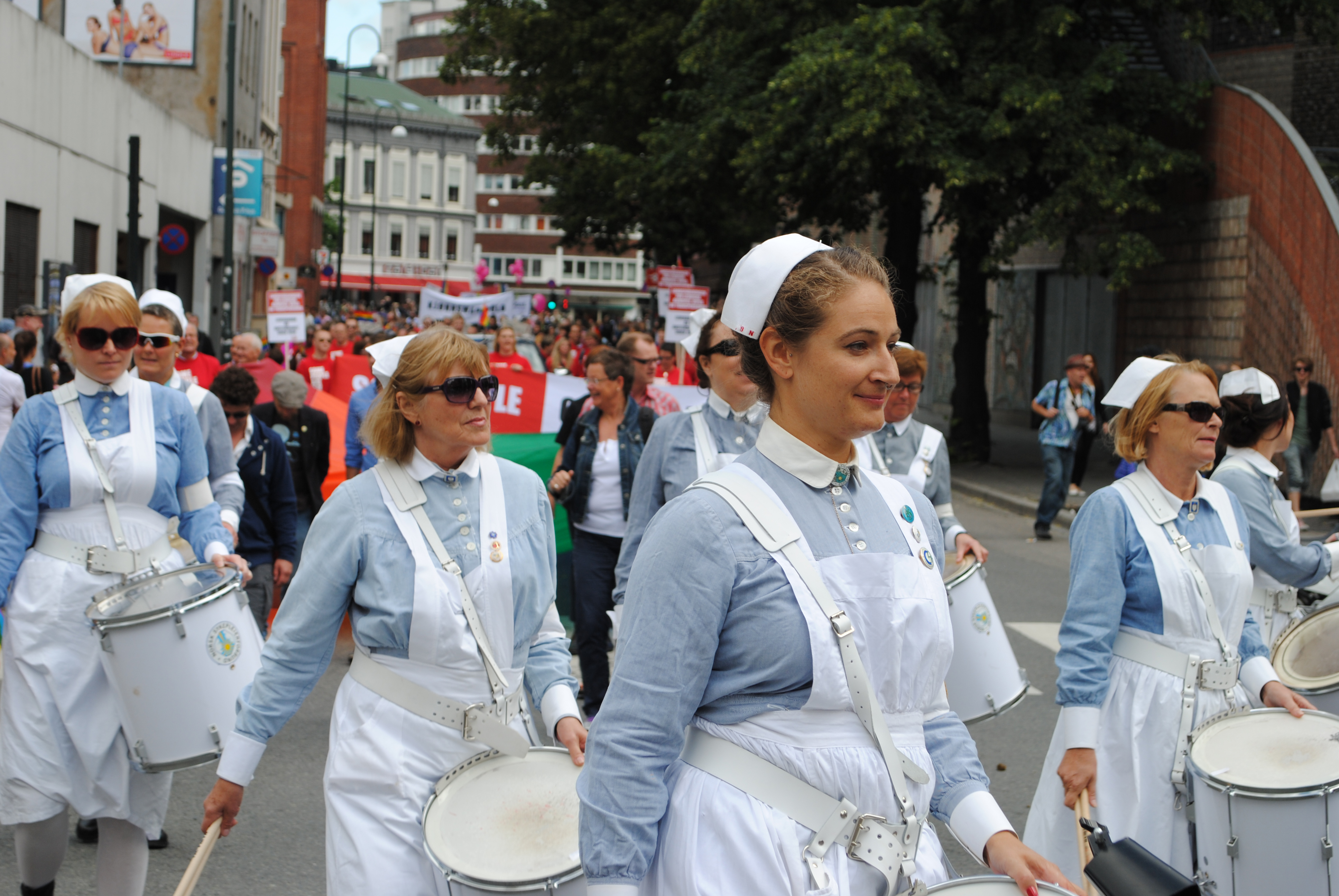 Drummers from the Norwegian Nurses trade union during a 1st of May parade in Oslo 2011.